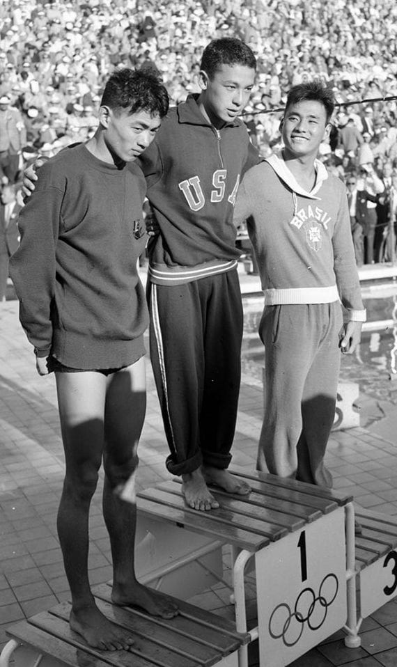 The medal ceremony of men’s 1,500 metres freestyle swimming took place on 2 August 1952.